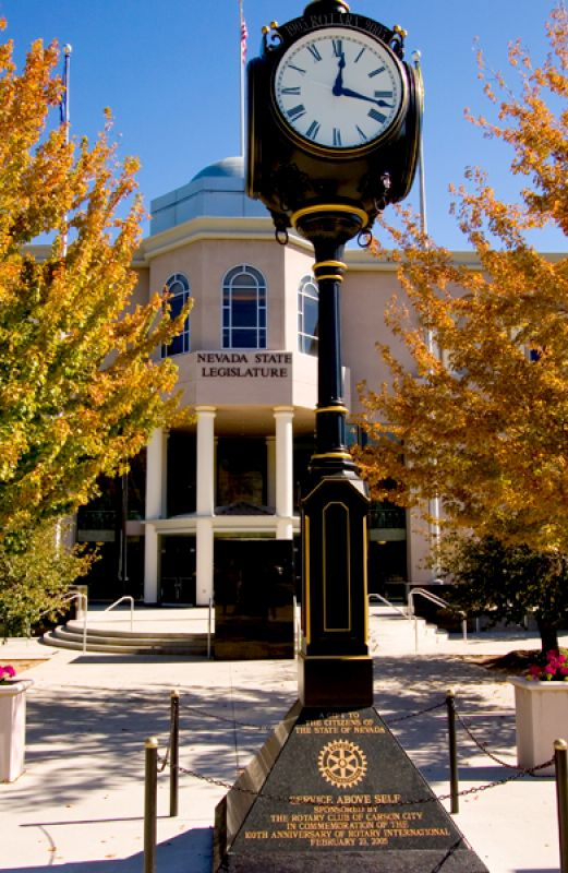 Rotary Clock